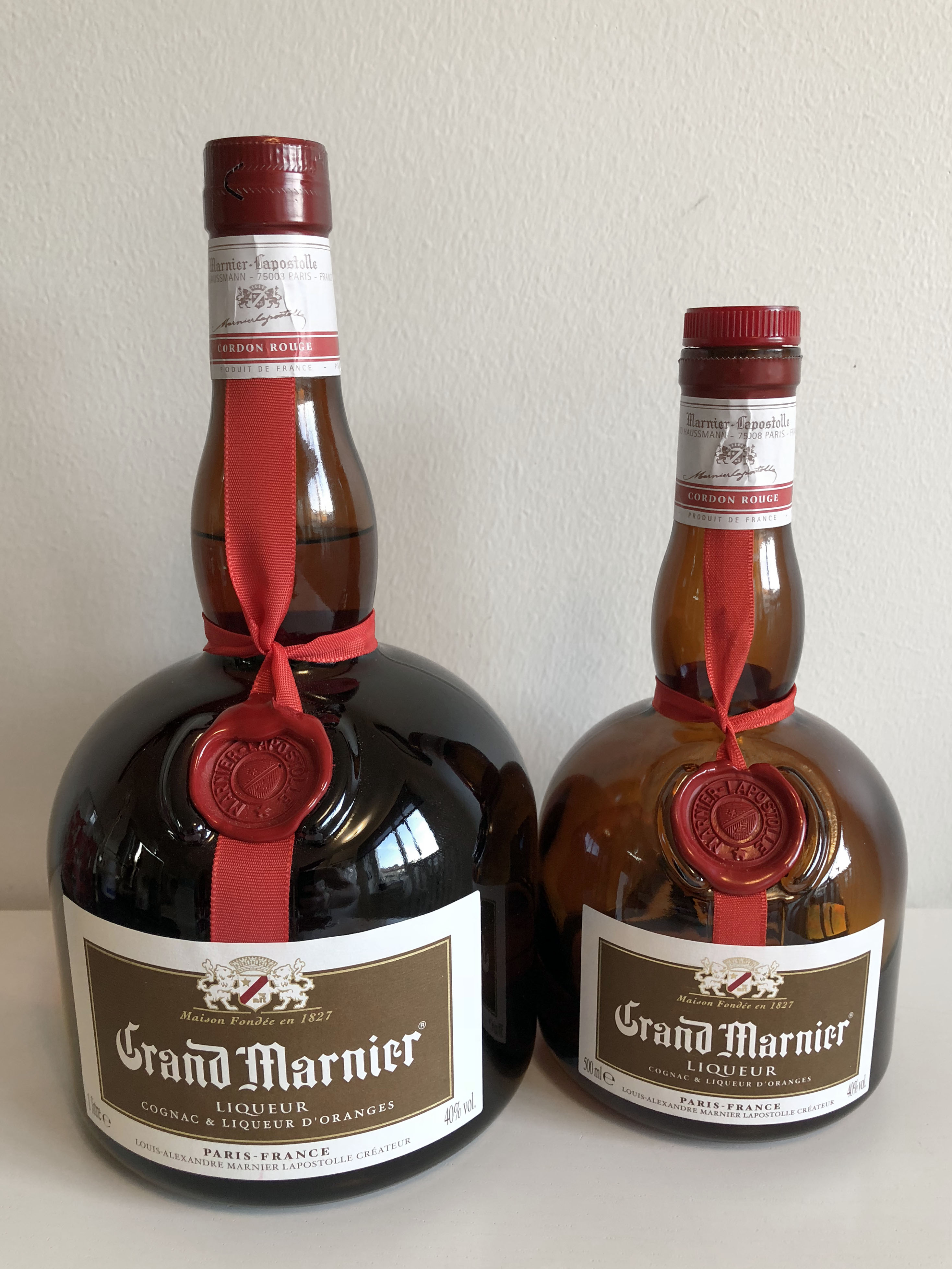 Two bottles of Grand Marnier